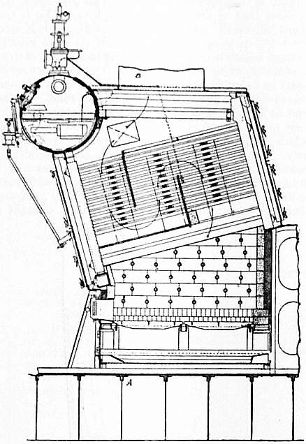 Babcock & Wilcox water-tube Boiler (marine type) Longitudinal